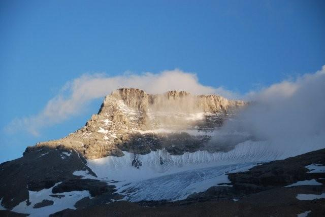 Pointe de la Réchasse from the Refuge du Col de la Vanoise